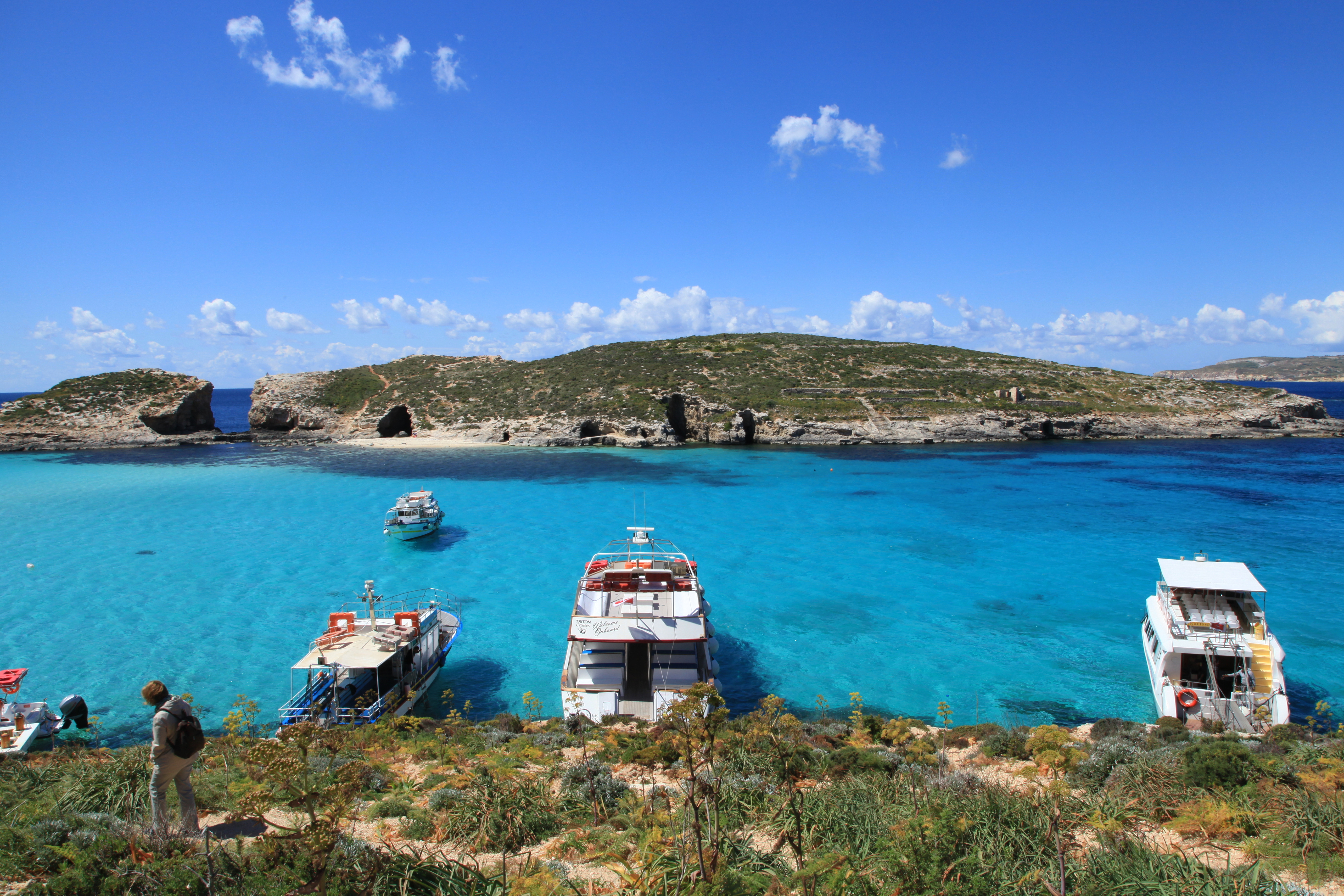 View from Comino to Cominotto and the Blue Lagoon in Għajnsielem, Malta